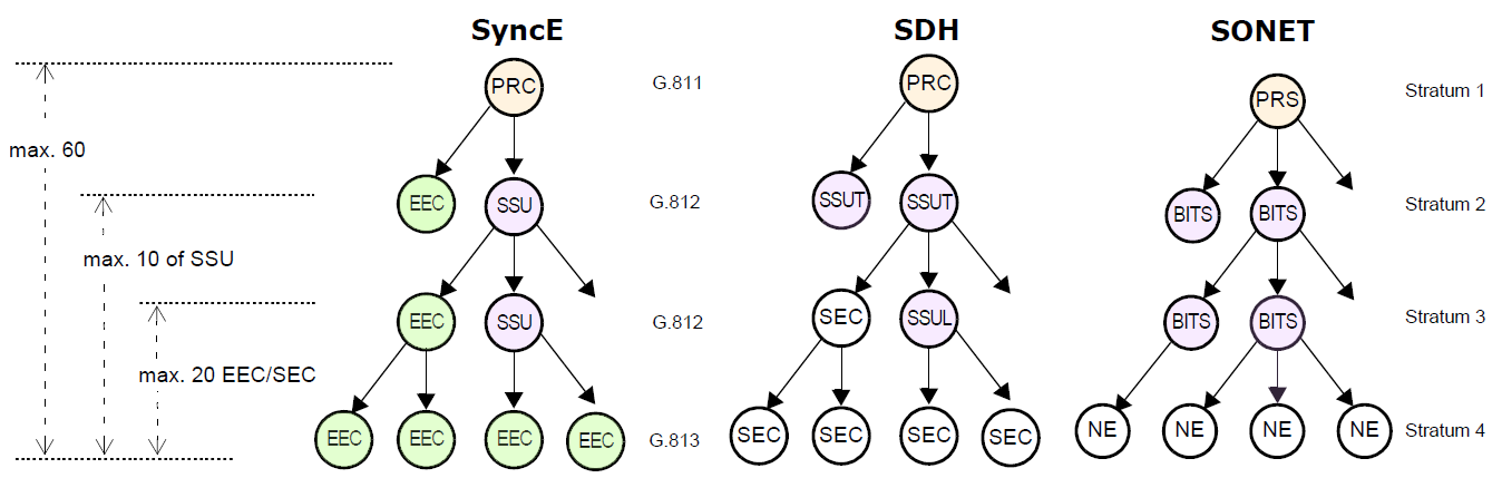 Synchronization Network Standards